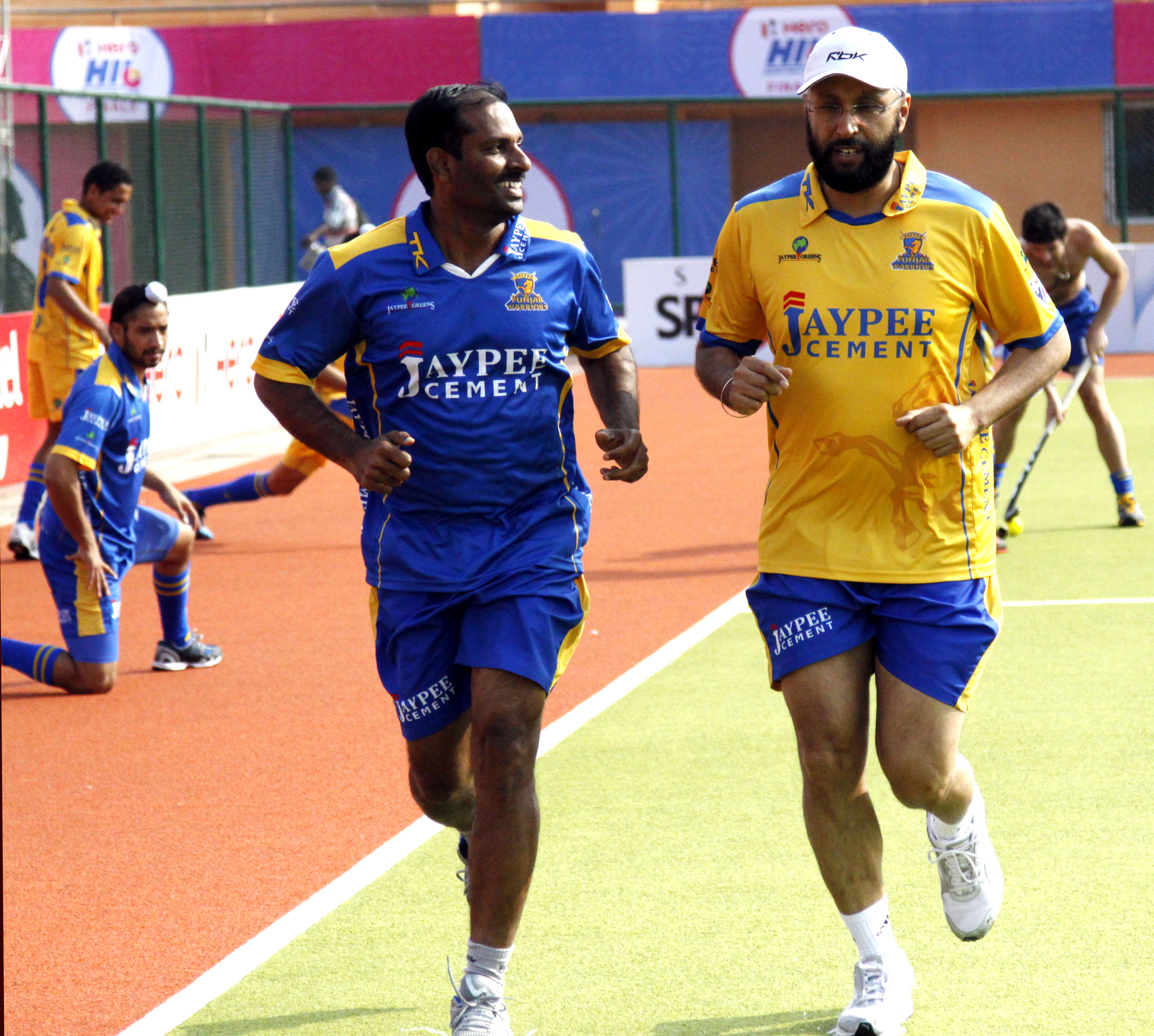 2 former olympians running together for team JPW